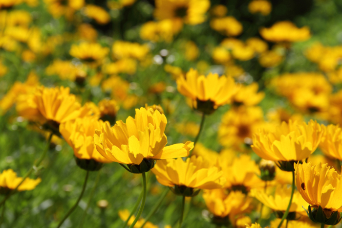 Family: Compositae Genus: Coreopsis Origin: North America Diameter of Flower: ~ 5 cm* Height: 30~70 cm